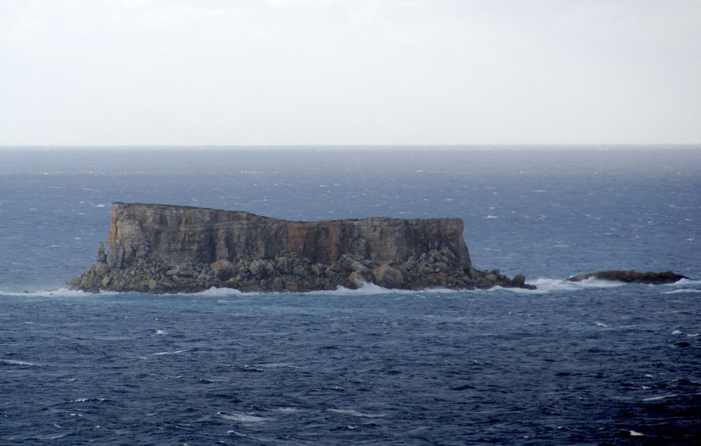 Filfla Island, Malta